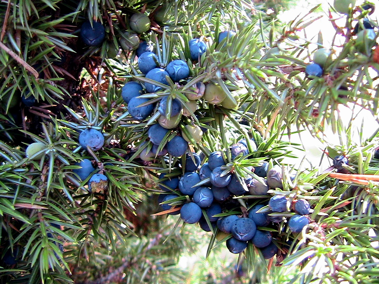 Juniperus communis. In la Bòfia, Odèn (Solsonès - Catalunya). To 1.750 m. altitude